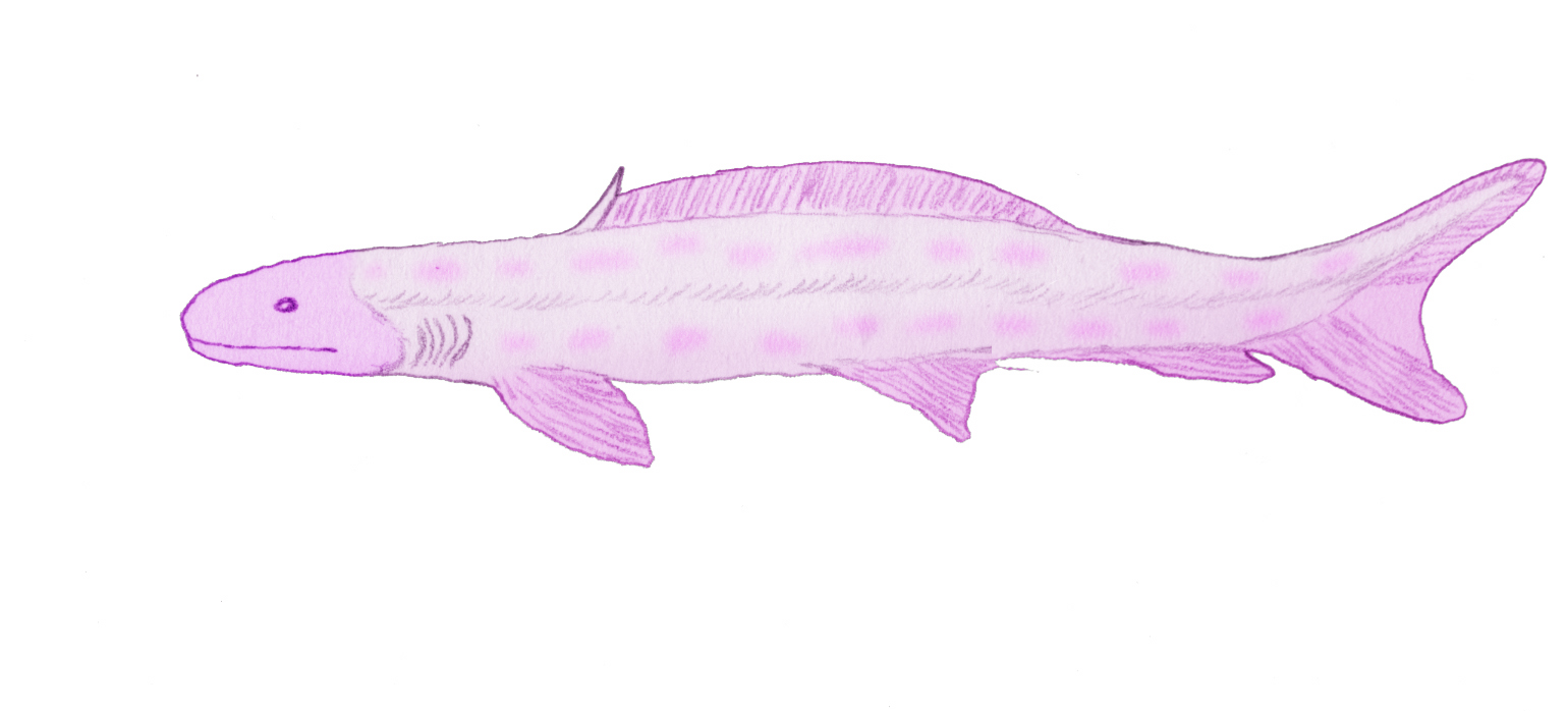 Restoration of Diplodoselache woodi, an extinct shark